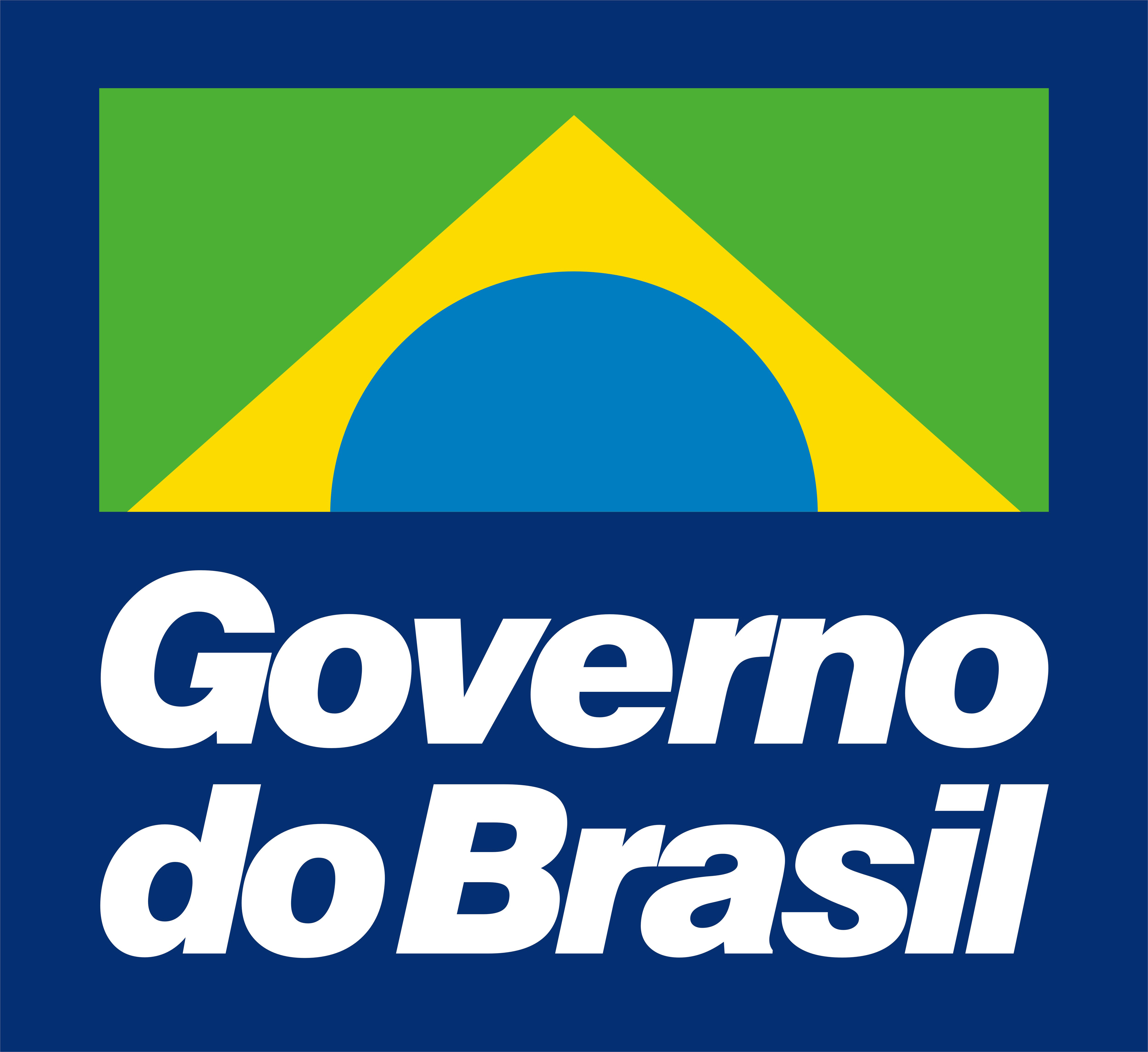 Logo of the government of Fernando Collor (Brazil).